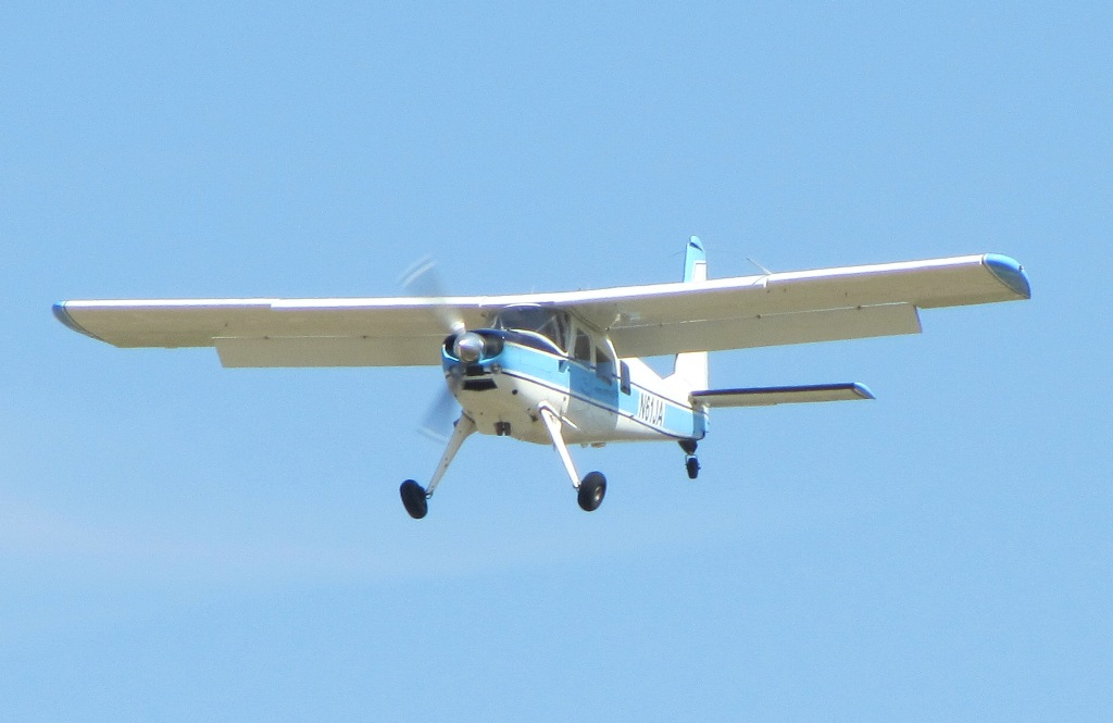 Helio Courier SN1